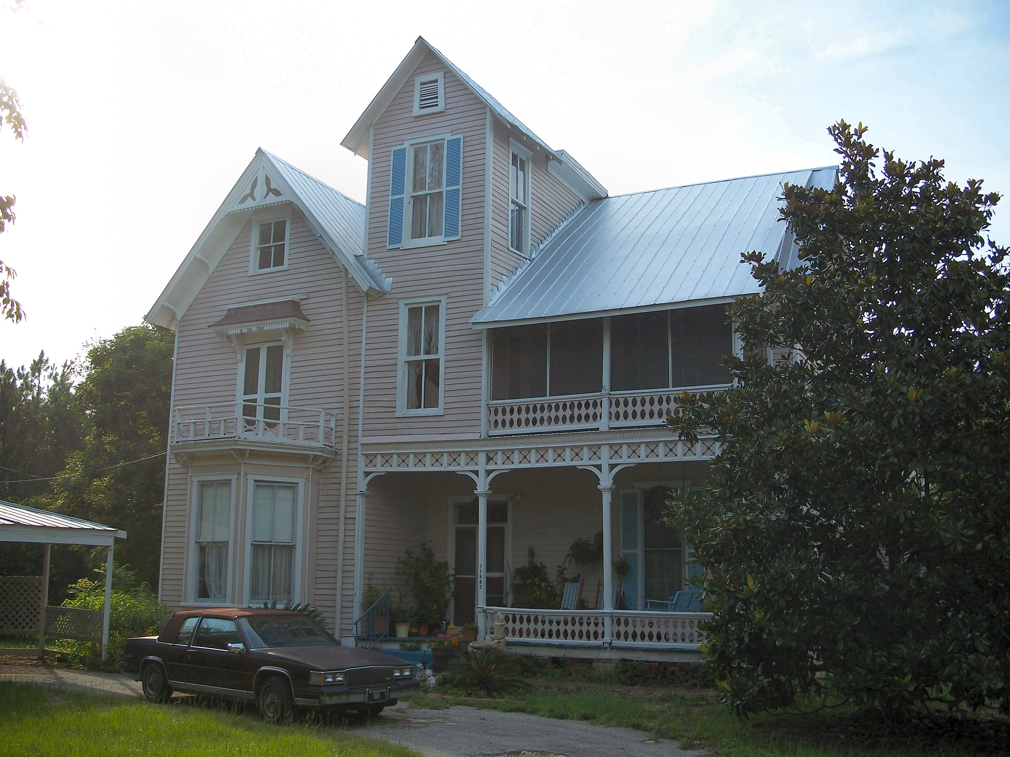 Thomas Ayer House, in Oklawaha, Florida